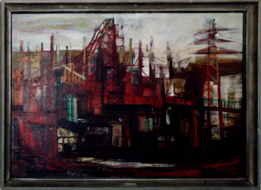 Ironworks. István Zsignár (hungarian painter, oil) University of Miskolc, Hungary